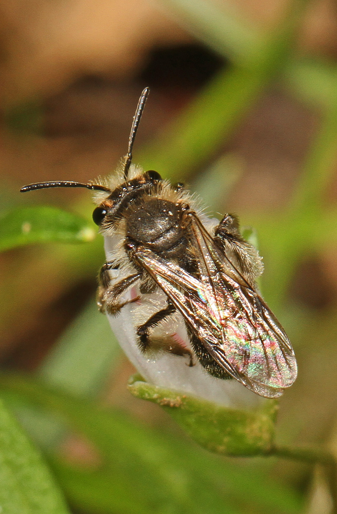 Spring Beauty Bee - Andrena eriginiae, Merrimac Farm Wildlife Management Area, Aden, Virginia. This bee is a pollen specialist, that is, it mainly collects pollen from one species, Spring Beauties. They are really fast and fairly small, so I was lucky to get this shot on a Spring Beauty (Claytonia virginica).